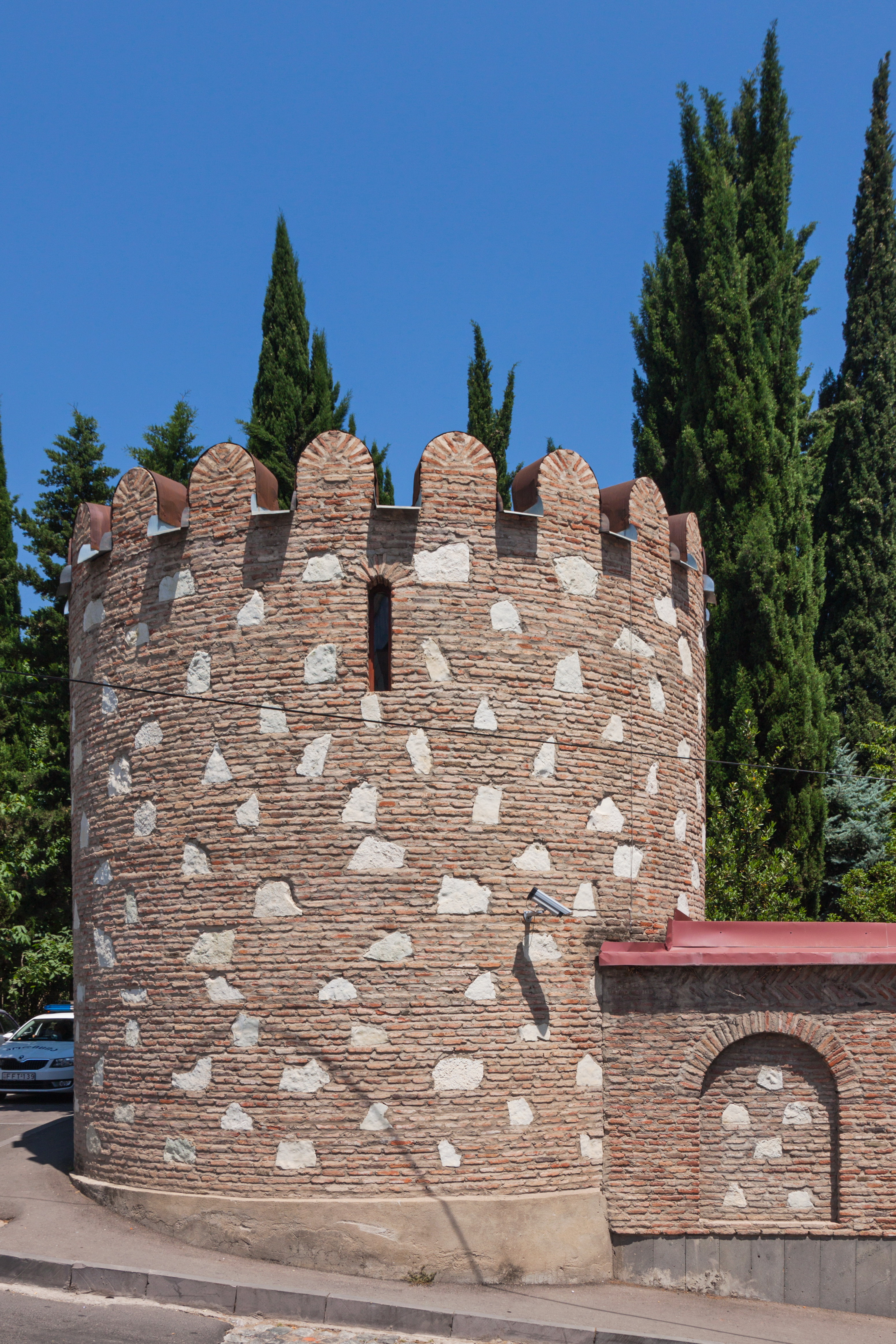 Tower on the corner. Tbilisi, Georgia.